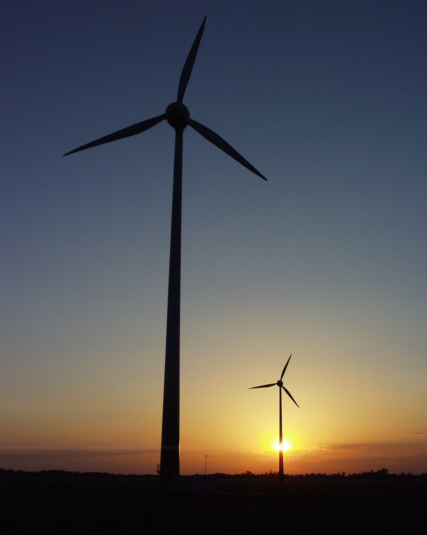 Wind turbines near Mosonszolnok (Hungary).